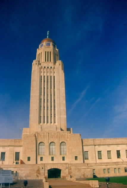 Bertram Goodhue: State Capitol, Lincoln, Nebraska